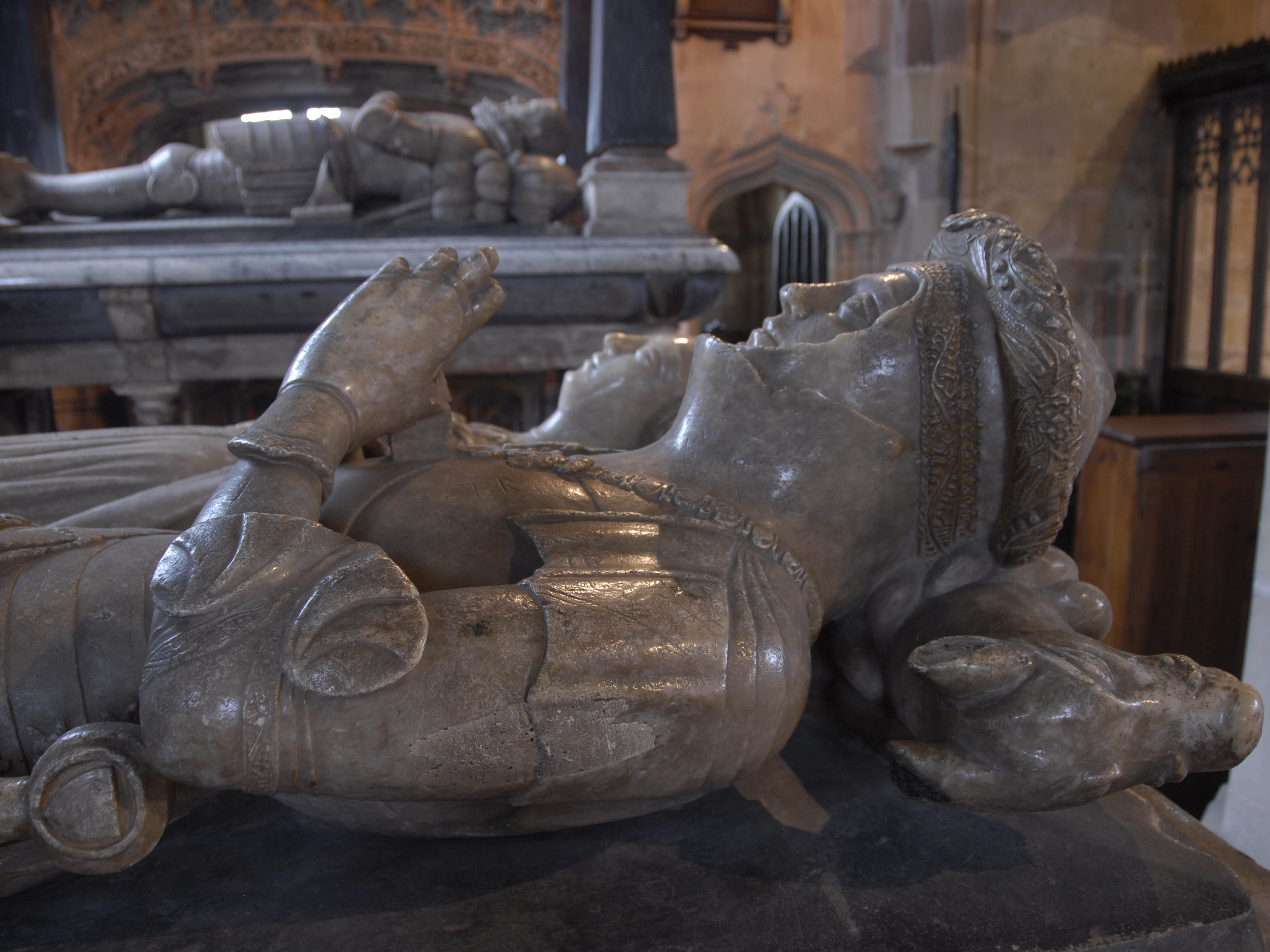 Detail of the tomb of Sir Richard Vernon (died 1451) in St Bartholomew's parish church, Tong, Shropshire